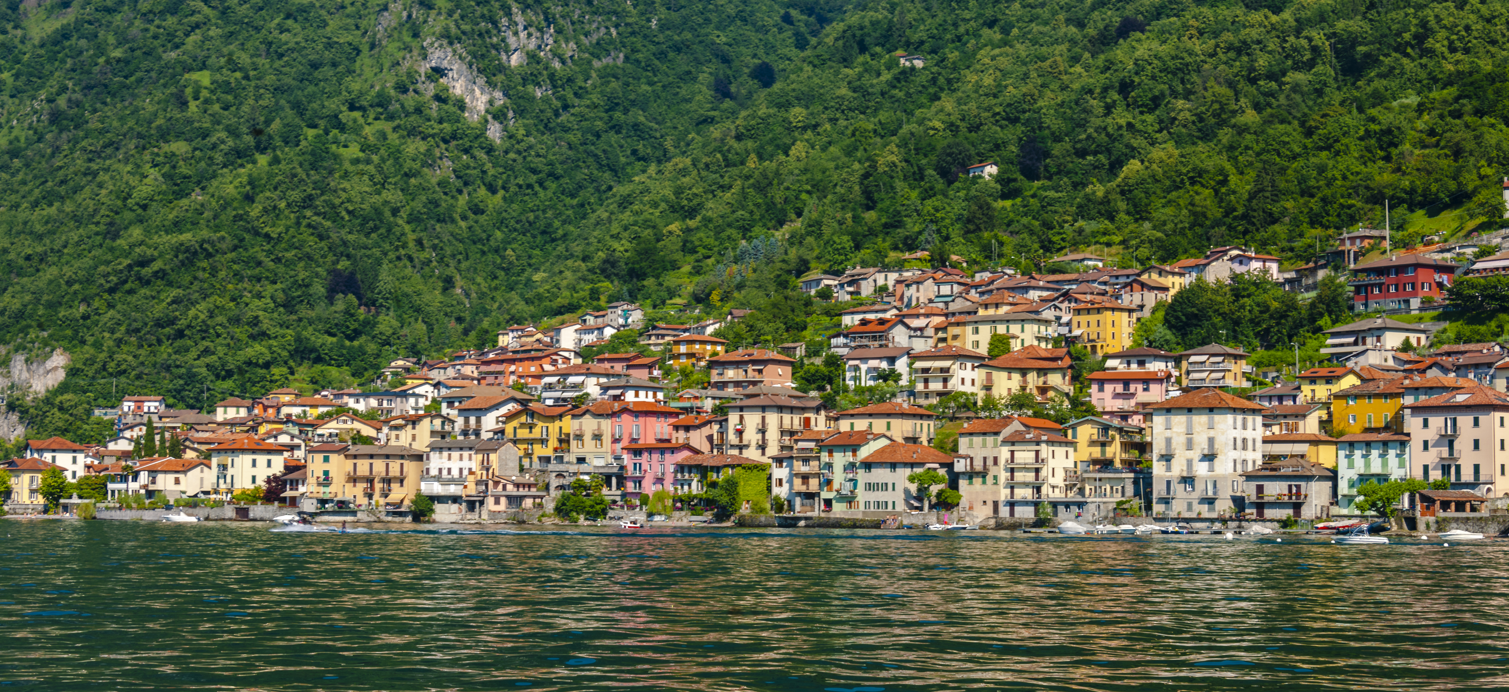 Casate from the Lake Como ferry leaving Lezzeno